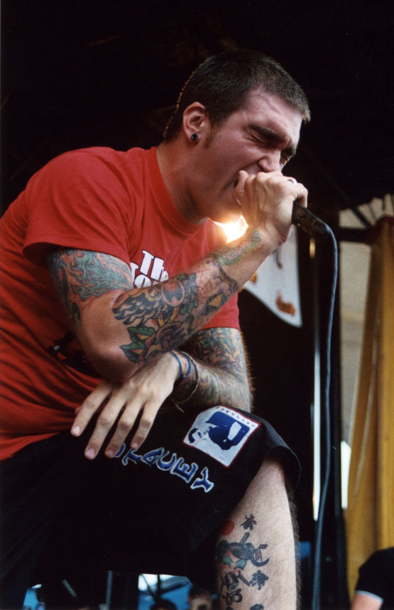 New Found Glory vocalist Jordan Pundik performing on the Vans Warped Tour in Indianapolis